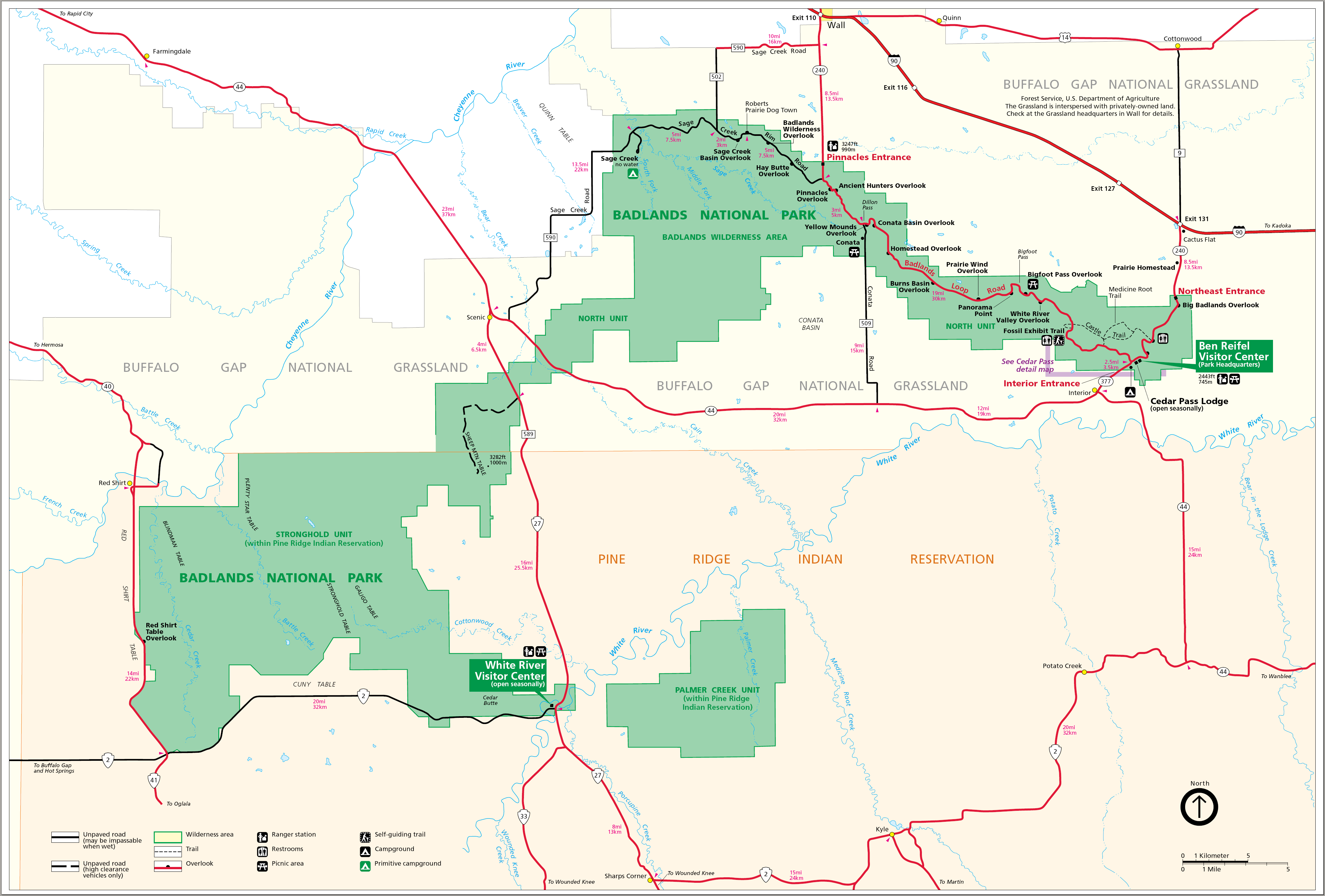 Map of Badlands National Park — in western South Dakota.